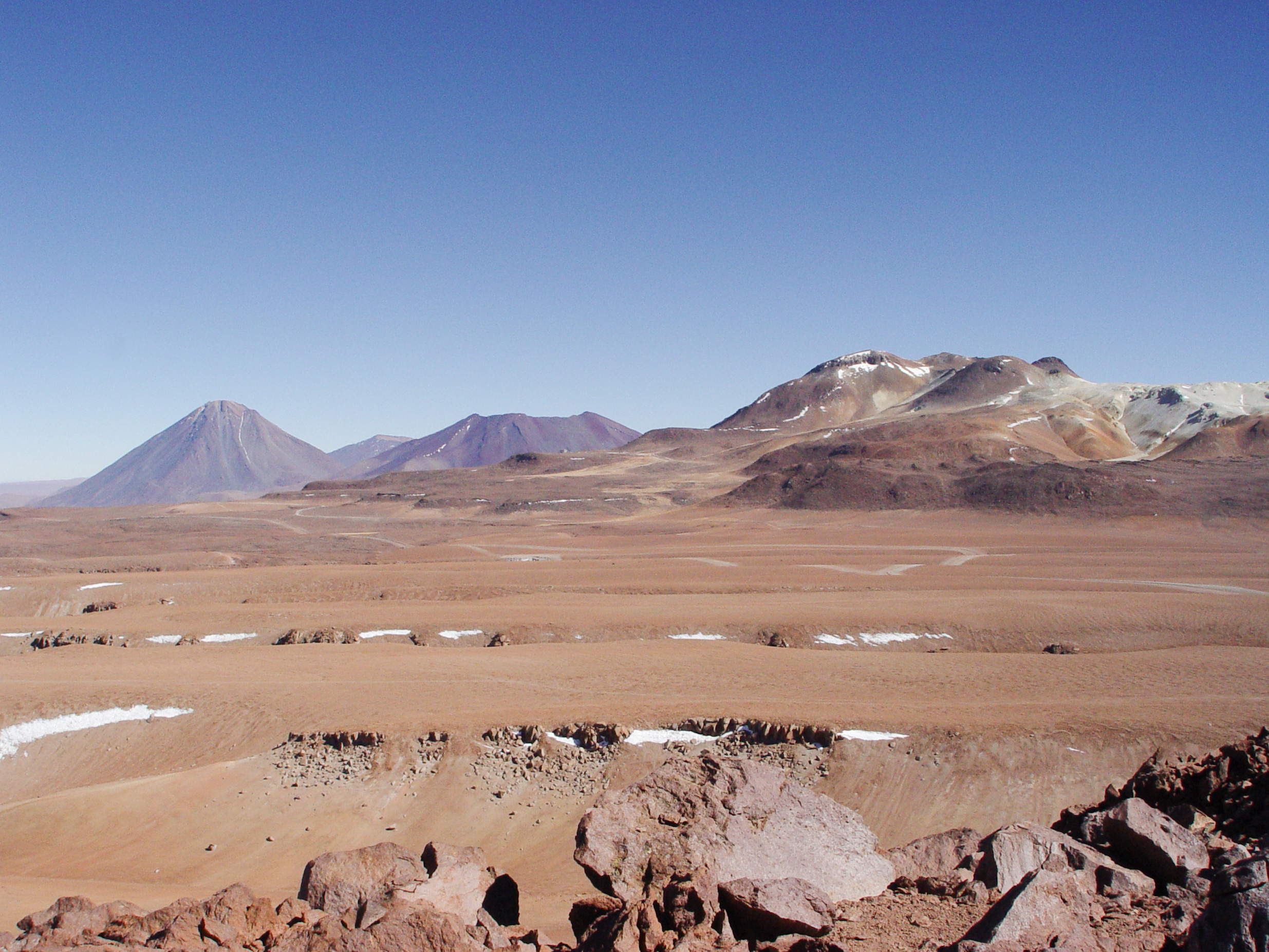 A view from Cerro Chico (5124 m a.s.l.) to the north across the plains of Chajnantor with a part of the ALMA construction site at the centre.